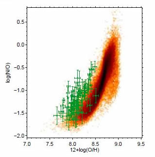 This is a graph taken as a screenshot taken from a publication on . The author of this publication, Ricardo Amorin, has given me permission to use it and as an arXiv publication it is available for free use under Creative Commons Attribution-Noncommercial-ShareAlike license ( The screenshot was edited by Richard Nowell who has uploaded it for use in the article entitled Pea Galaxy. R.Amorin's email is: .Richard Nowell (talk) 11:44, 9 June 2011 (UTC)